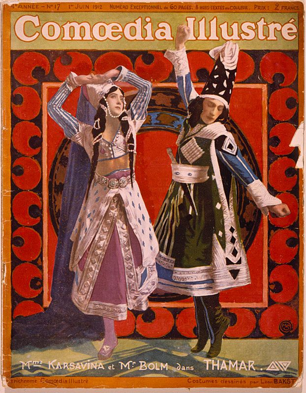 Program cover: Comœdia Illustré 1912 Queen Thamar and the Prince in Thamar Léon Bakst -- Russian costume and set designer June 1912 National Gallery of Australia